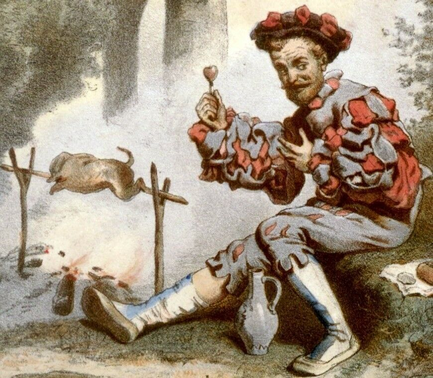 Illustration for 'Bruder Lustig' by Emil Hünten for 'Grimm's Fairy Tales' 1885